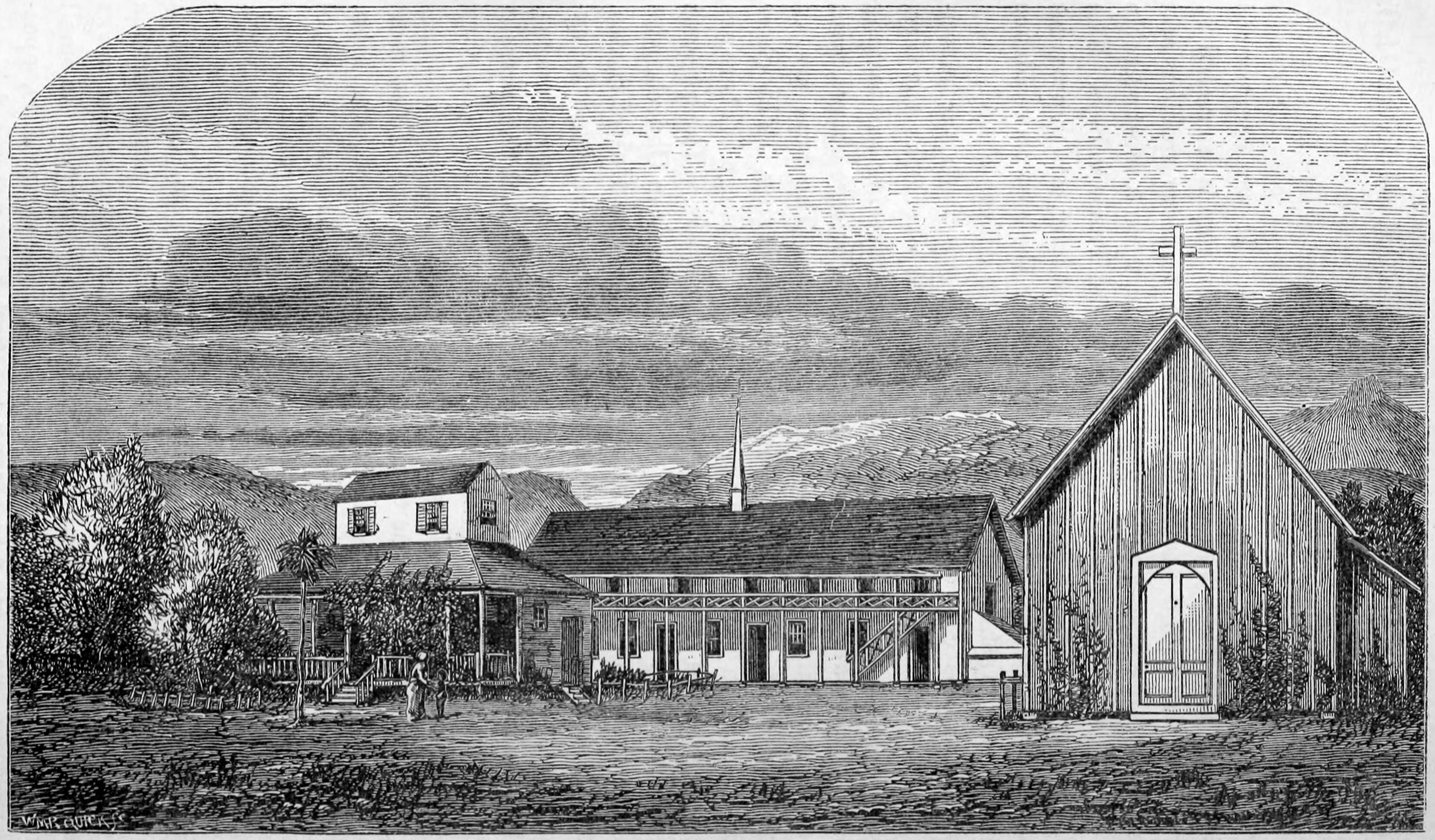 This is an engraving of a sketch of St Alban's College, established in 1864 by Thomas Nettleship Staley, first Bishop of the Church of Hawaii. Originally it was a boy's boarding school for about 30 students. It is now called 'Iolani school. The chapel on the current campus is still named for St Alban